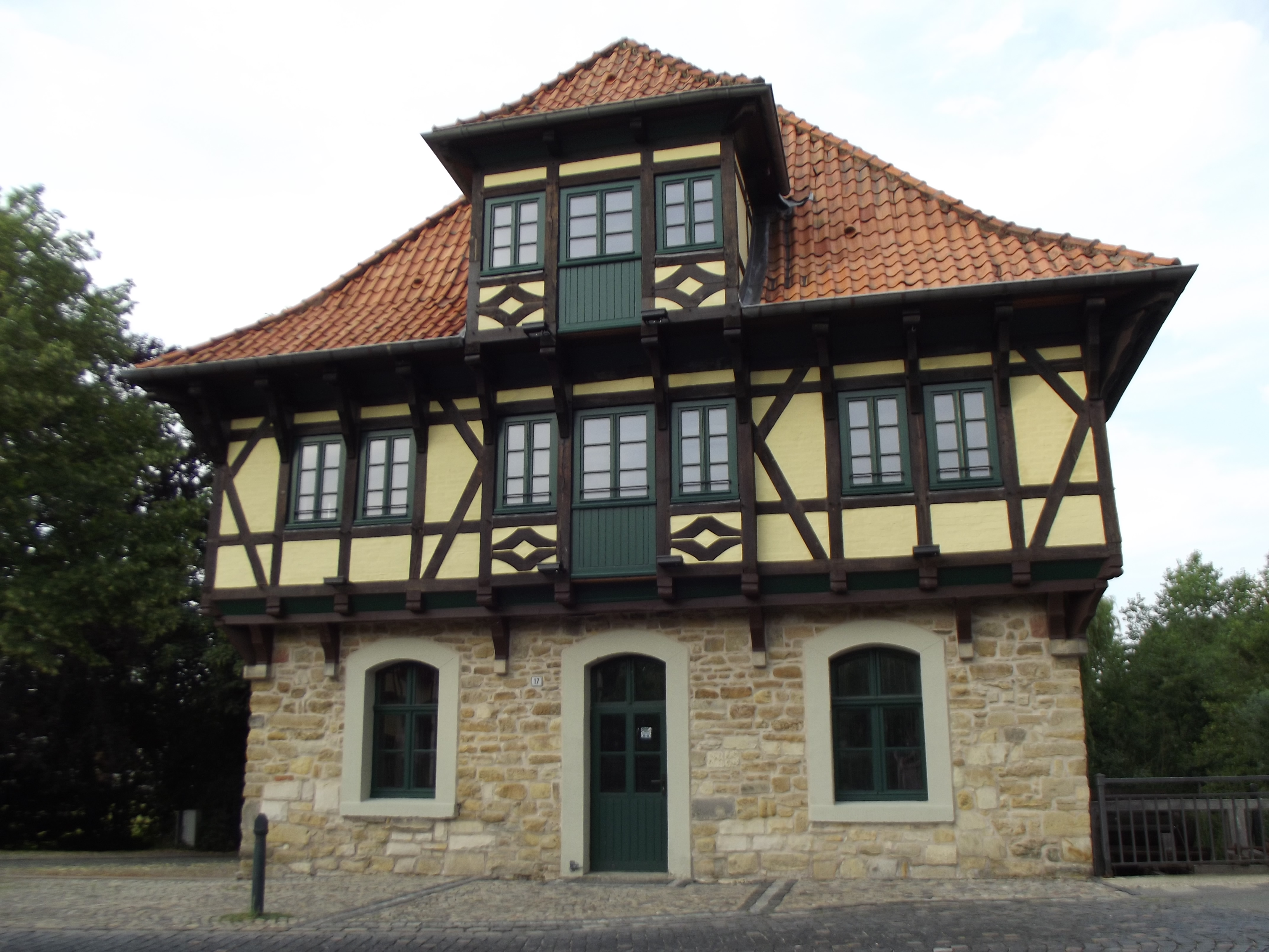 The Schlossmühle was used to Change the water in the moat and later produced electricity. Recently it was a restaurant